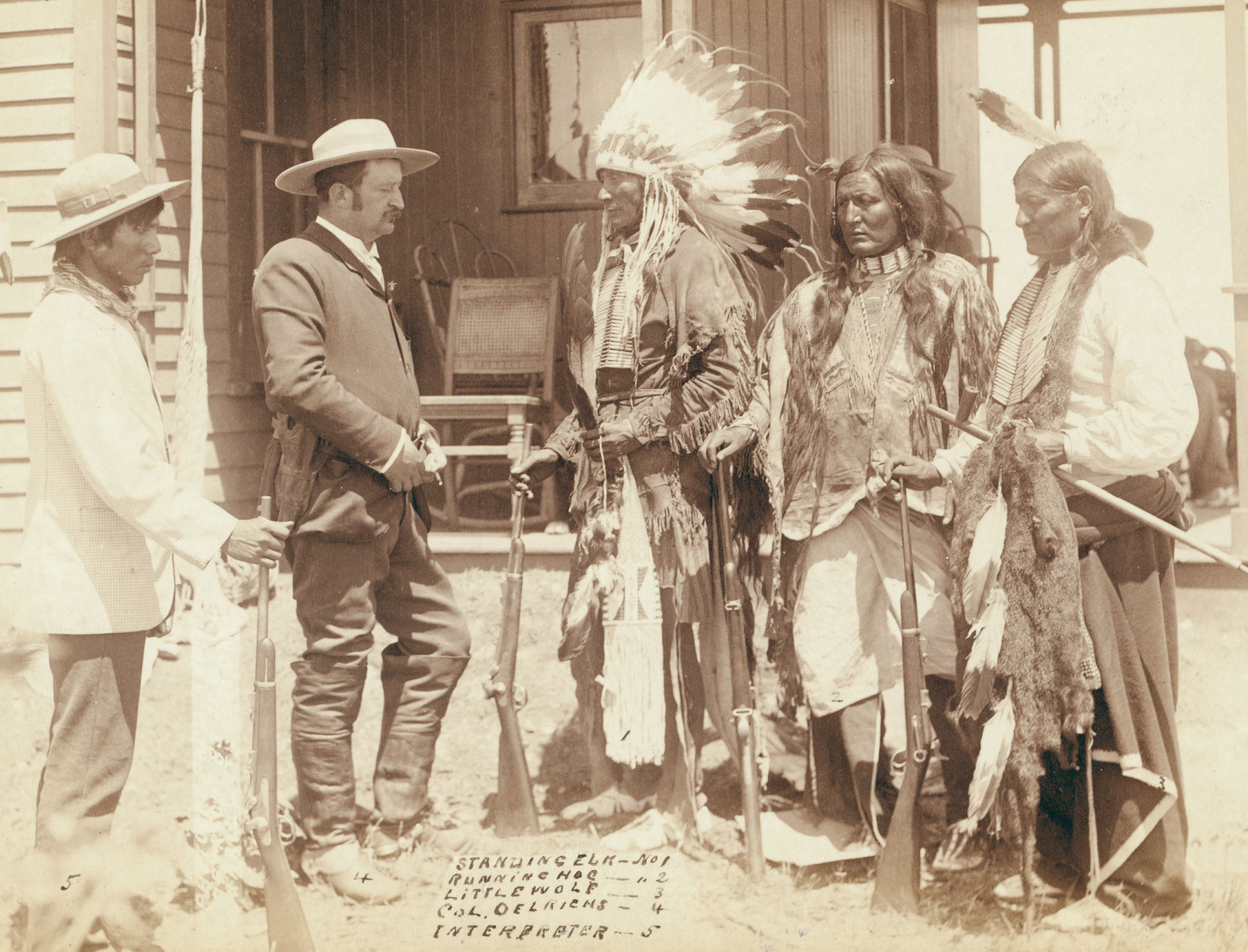 Original title The Interview. Standing Elk, No. 1; Running Hog, No. 2; Little Wolf, No. 3; Col. Oelrichs, No. 4; Interpreter, No. 5 Three Cheyenne Standing Elk, Running Hog and Little Wolf wearing ceremonial clothing and holding rifles, greeting a Euro-American man in a suit and his interpreter in front of a building.